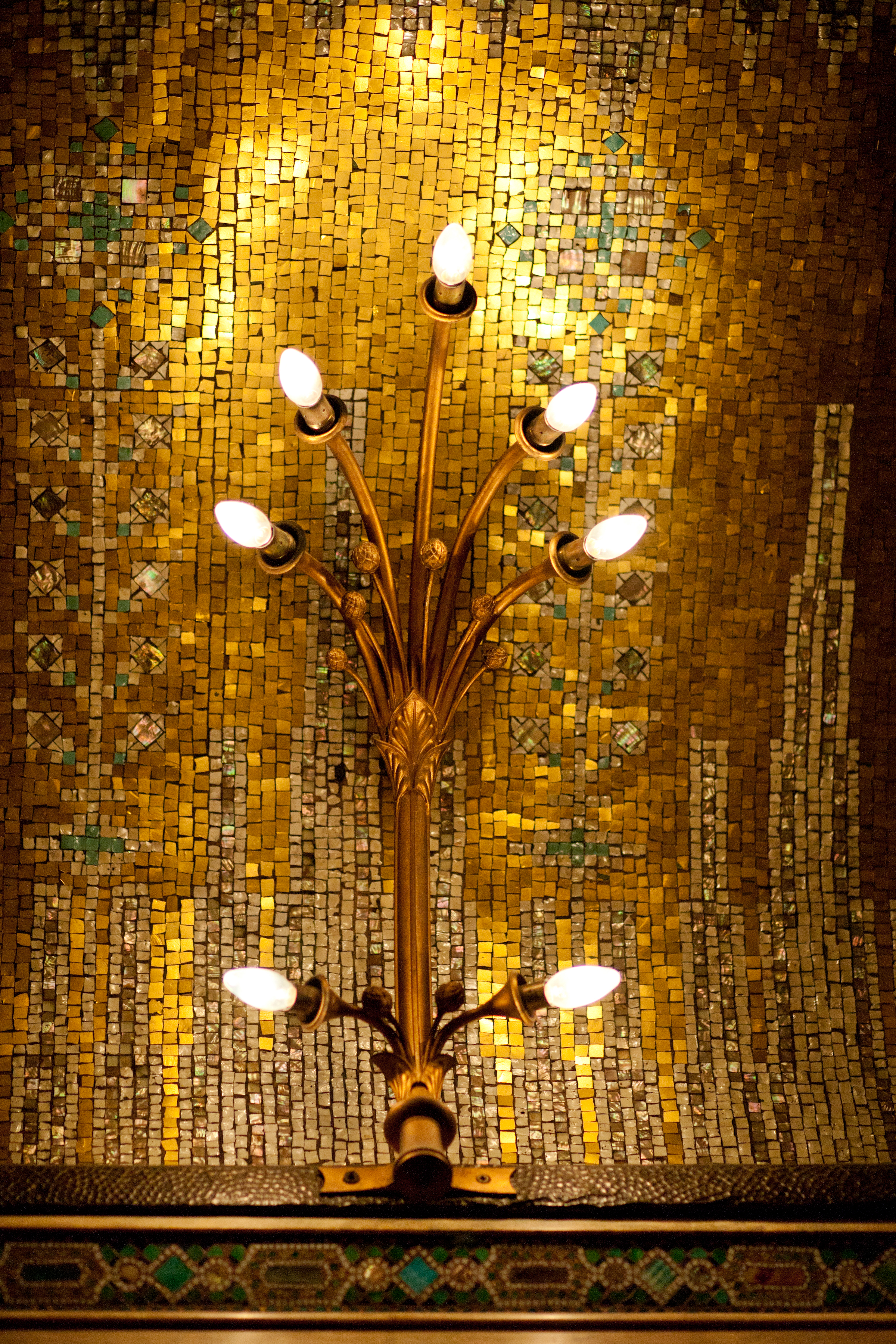 Mother of pearl mosaic tiles in the ceiling Criterion Restaurant